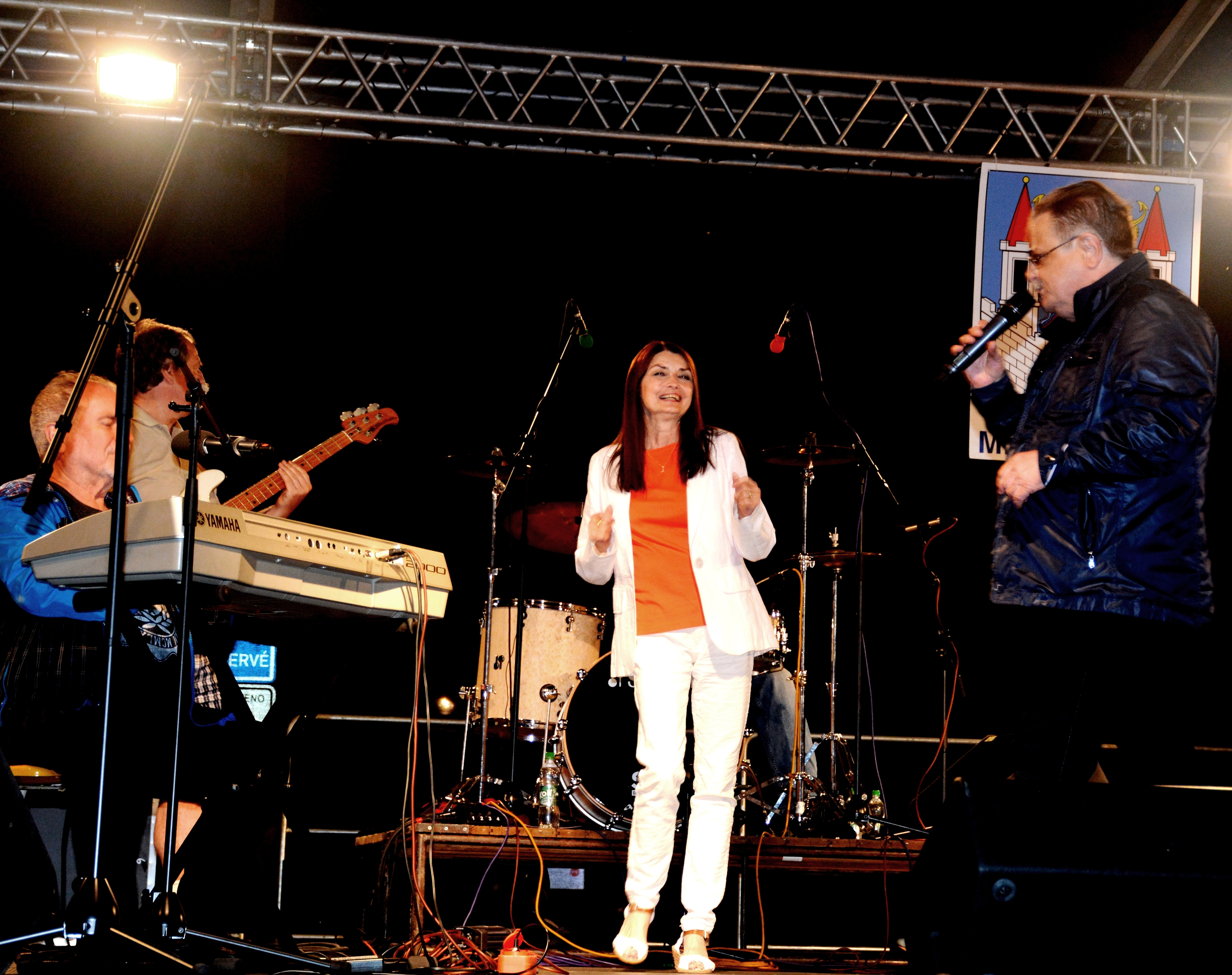 Miluše Voborníková, Czech vocalist and Petr Spálený (right), Czech vocalist